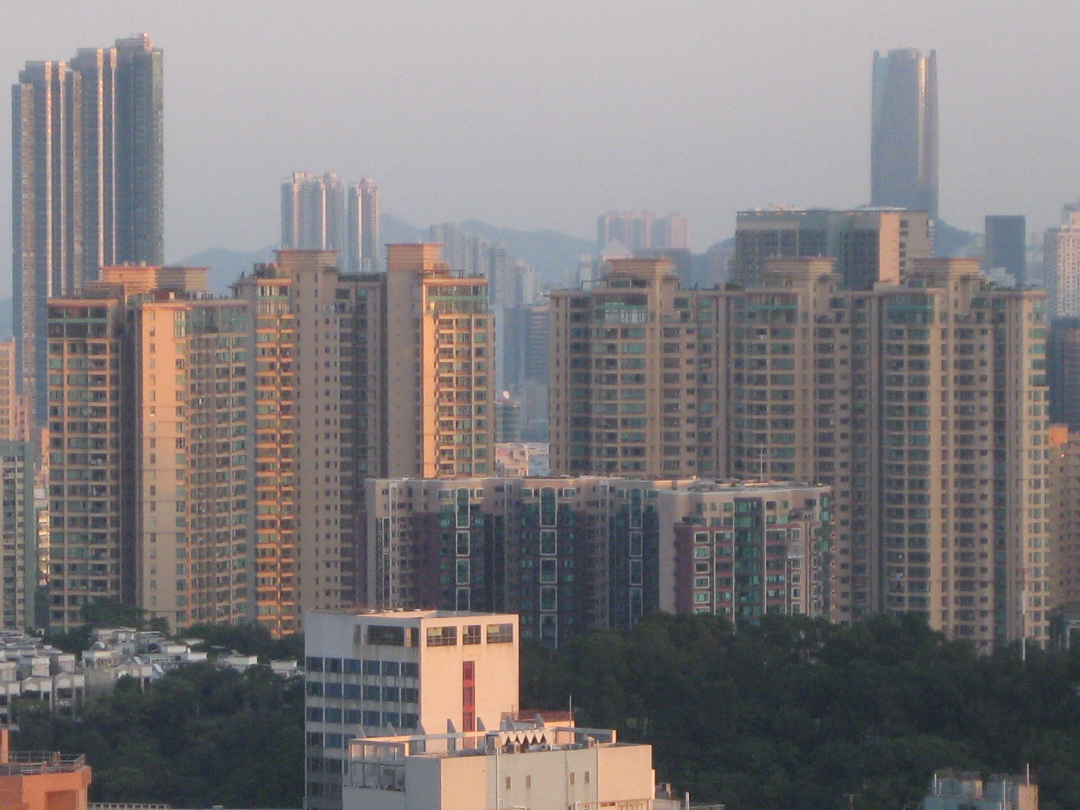 Parc Palais and King's Park Villa